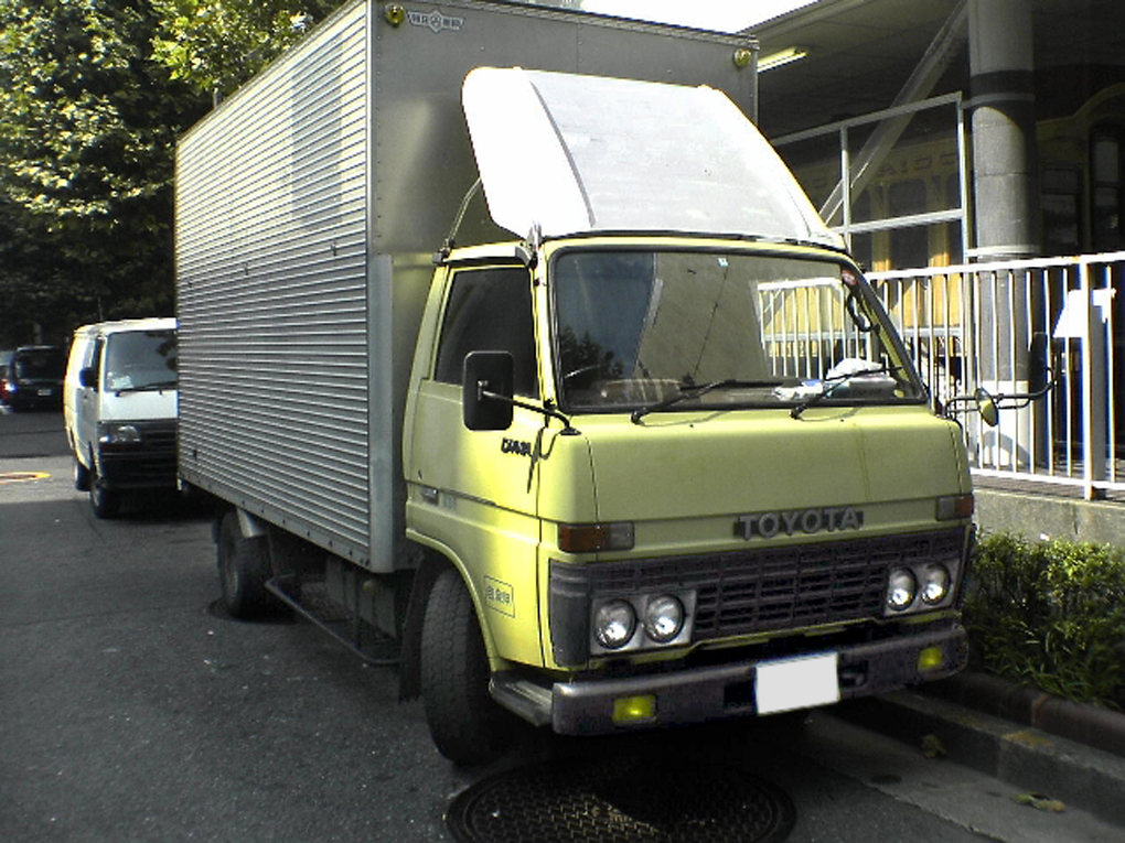 Toyota Dyna Fourth-generation, taken in Tokyo